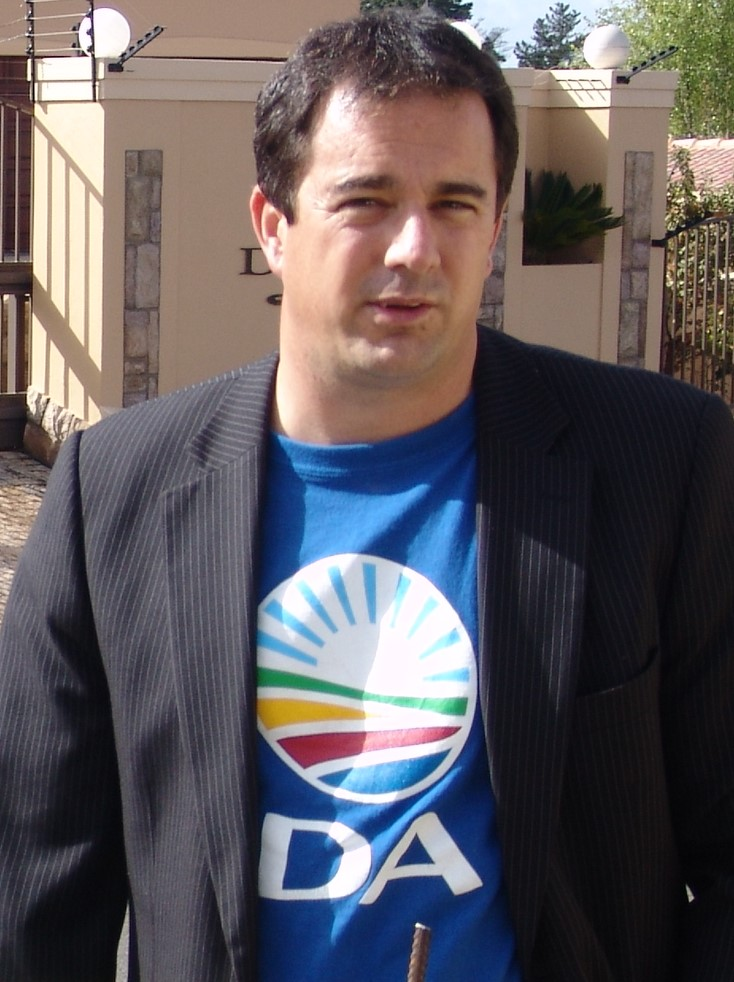 Depicted person: John Steenhuisen – South African politician